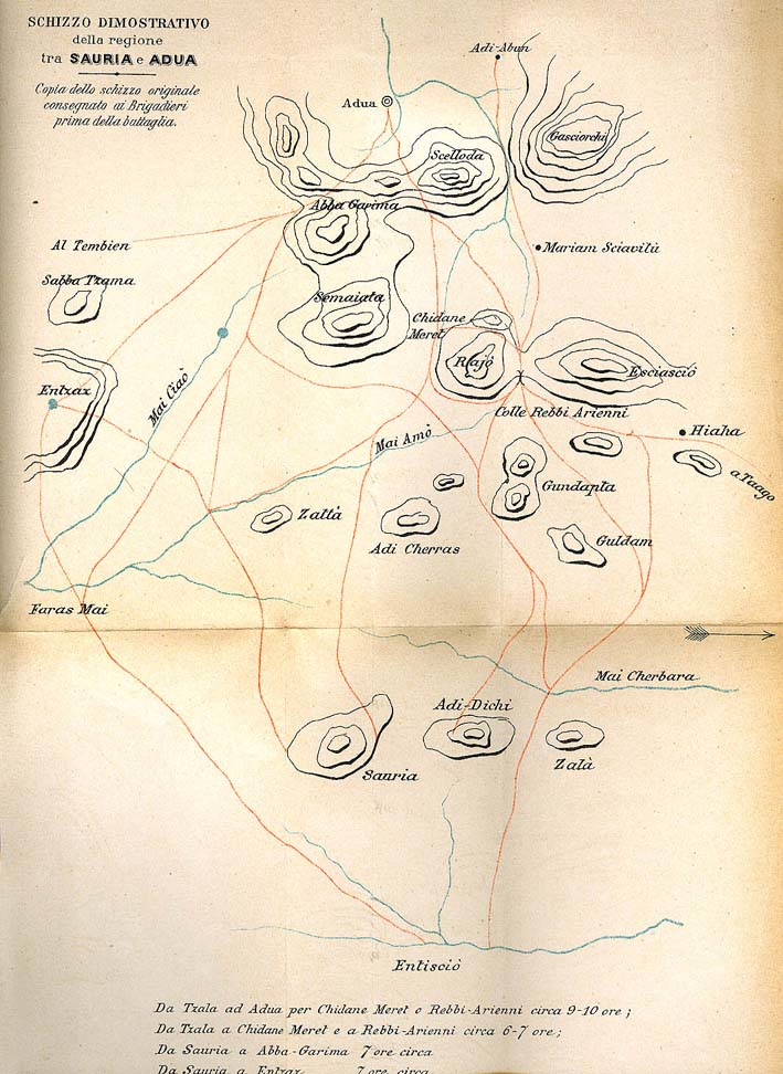 An 1890s Italian map of Adwa or Adua